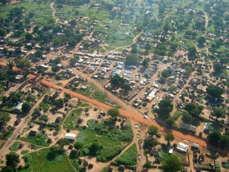 Aerial view of a part of Juba, capital of south Sudan, South Sudan.